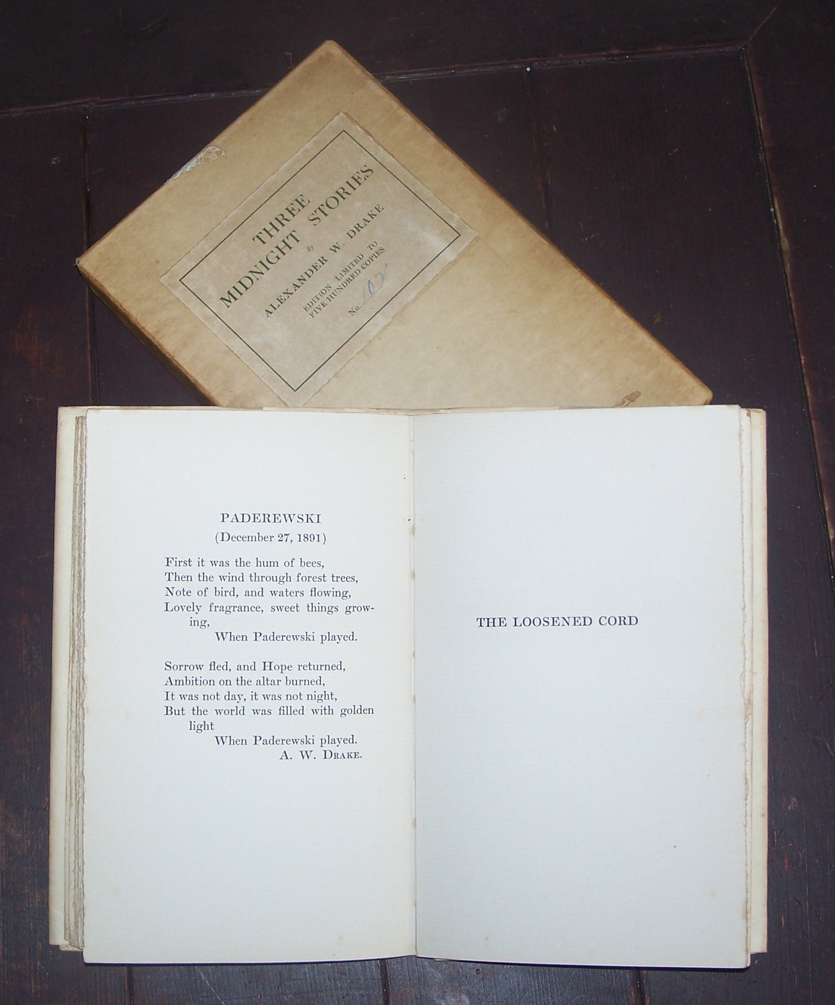 Photograph of Three Midnight Stories, No. 102 of 500 (from the estate of Walter Leighton Clark